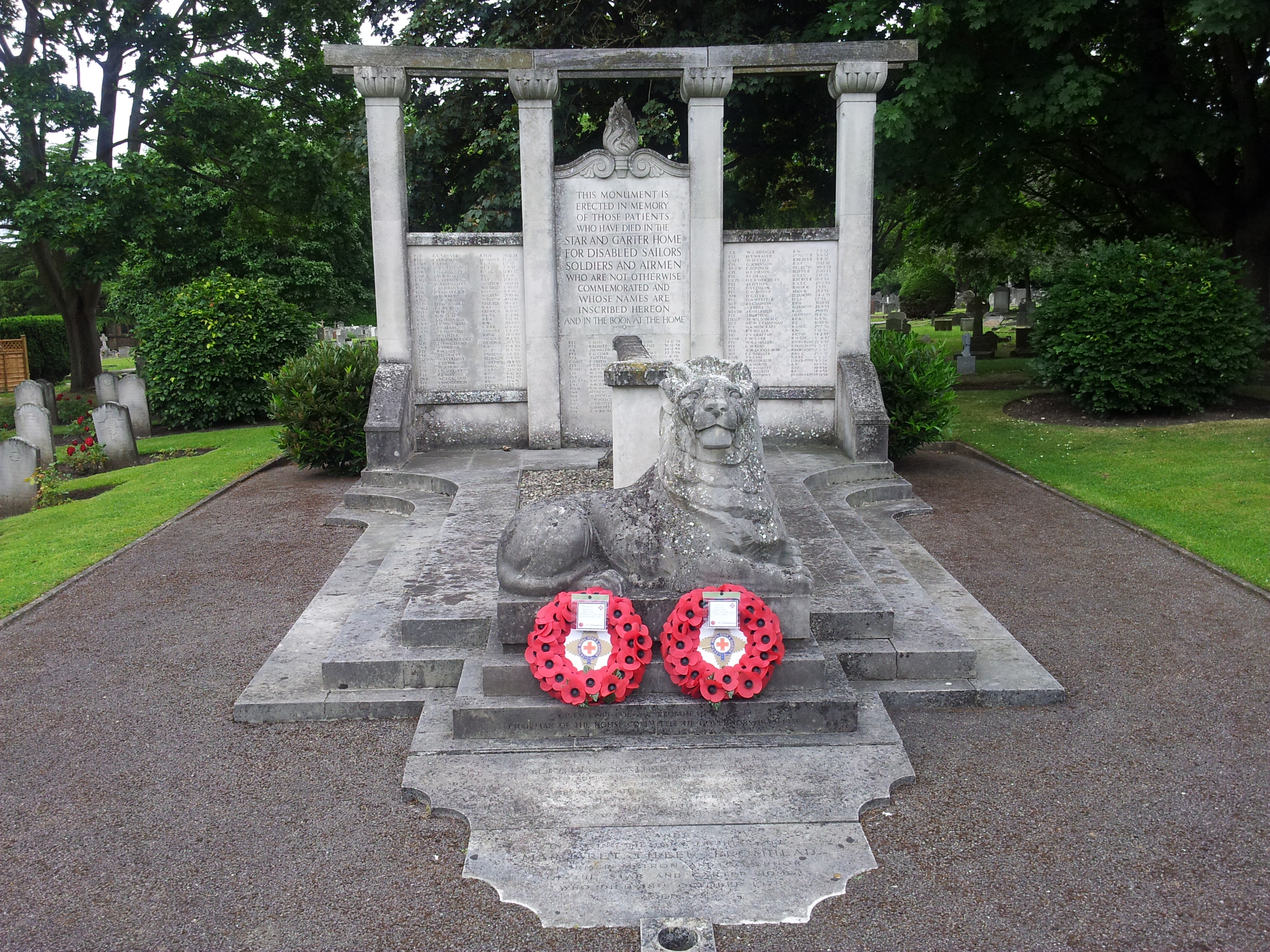 Bromhead memorial with wreaths